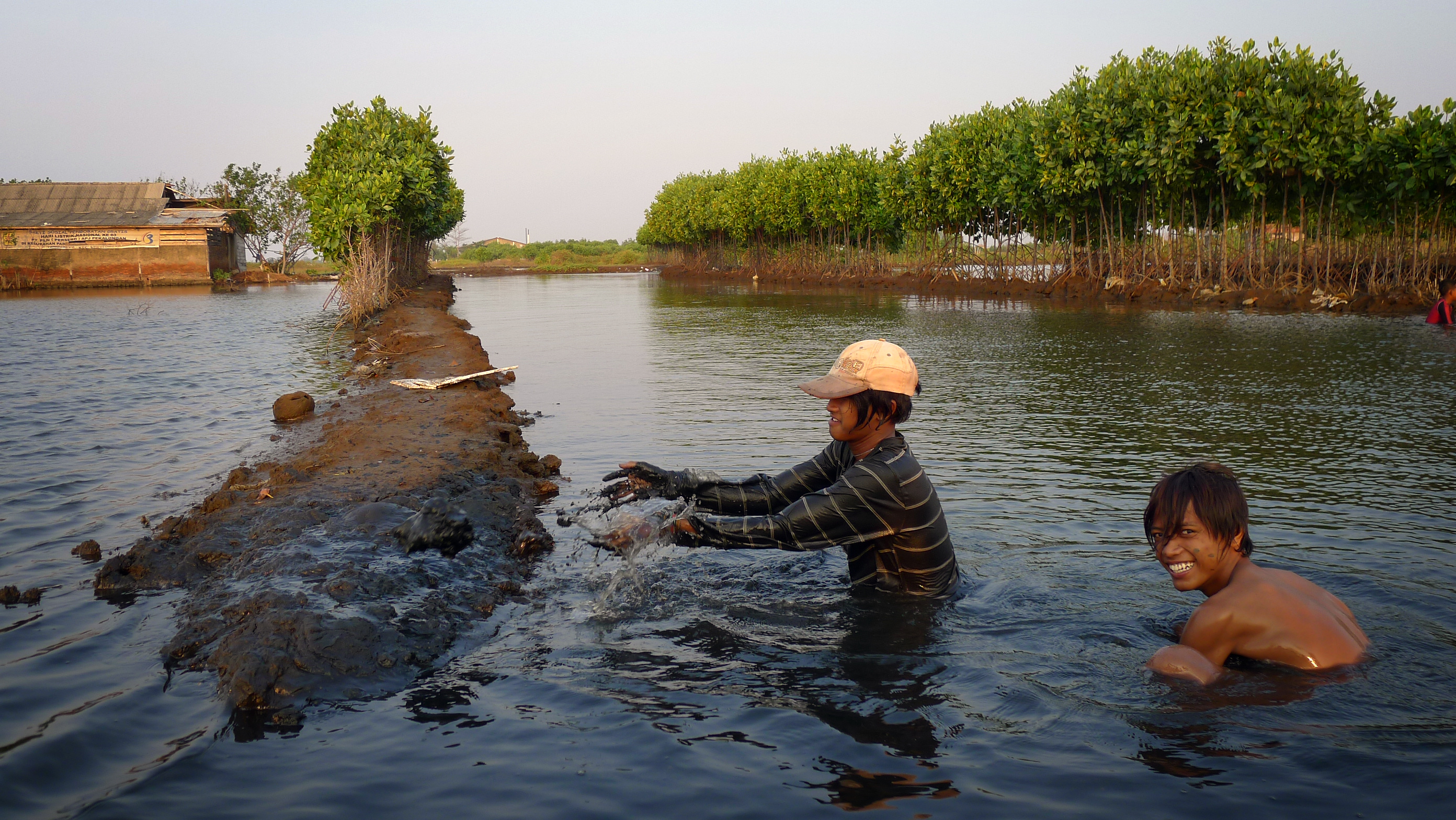 Construction of a shrimp farm, Pekalongan, Central Java